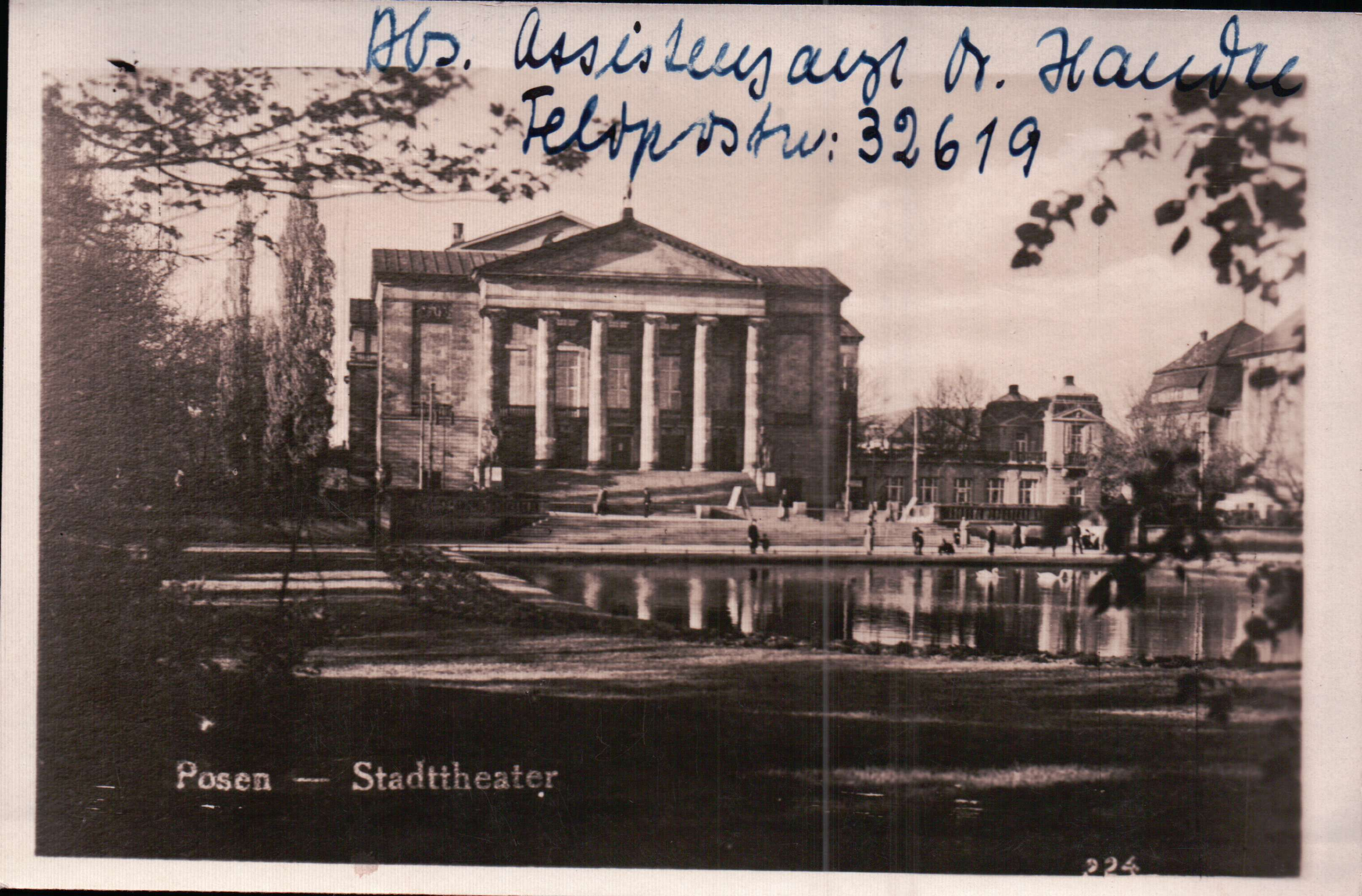 town theatre of Poznan about 1940